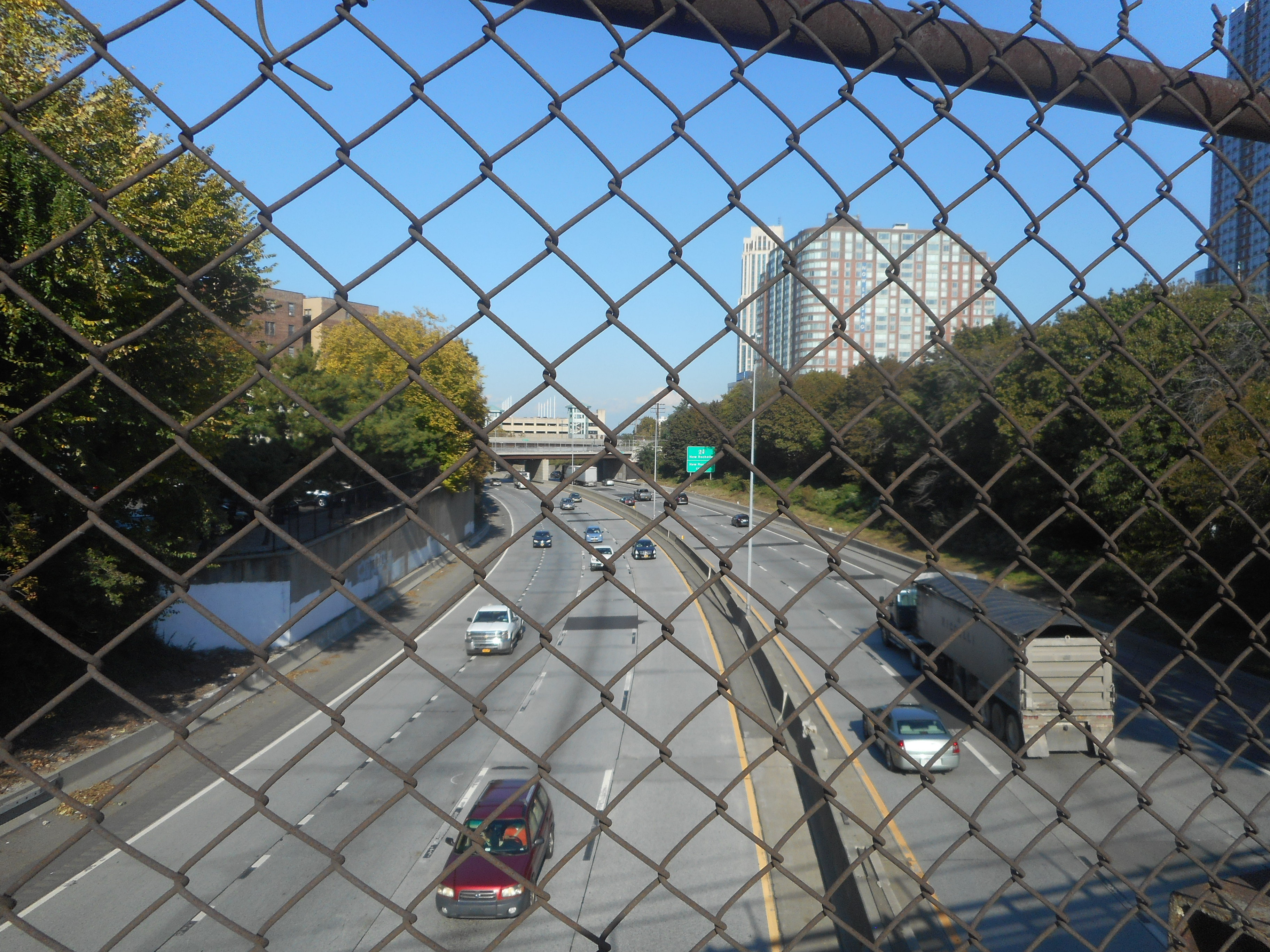 Images related to the Centre Avenue bridges over the Metro-North New Haven Line and/or the New England Thruway in New Rochelle, New York. Further details to come later.